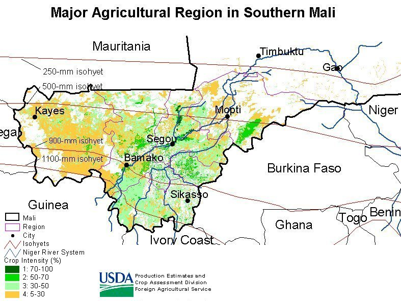 Major Agricultural Region in Southern Mali, showing Isohyet lines and crop intesity percentages. "Mali’s most productive agricultural region located between Bamako and Mopti. Irrigation is practiced in this region, but irrigation water is used mainly for rice while cotton is grown as a rainfed crop. Average rainfall varies in this region from 500-mm per year around Mopti to 1400-mm in the south near Bougouni. Cotton production systems typically revolve around small family farms with limited equipment and no mechanization. ... In general, cotton in the Franc Zone is grown within the Sudanian and Sudanian-Guinean Zone, characterized with an annual rainfall ranging from 600-1200 mm and growing seasons greater than 120 days. Cotton within the Franc Zone is planted from May-July and harvested from October-December. Other cropping systems within the Franc Zone cotton belt includes maize, sorghum, millet, vegetables, cowpeas, and rice. "